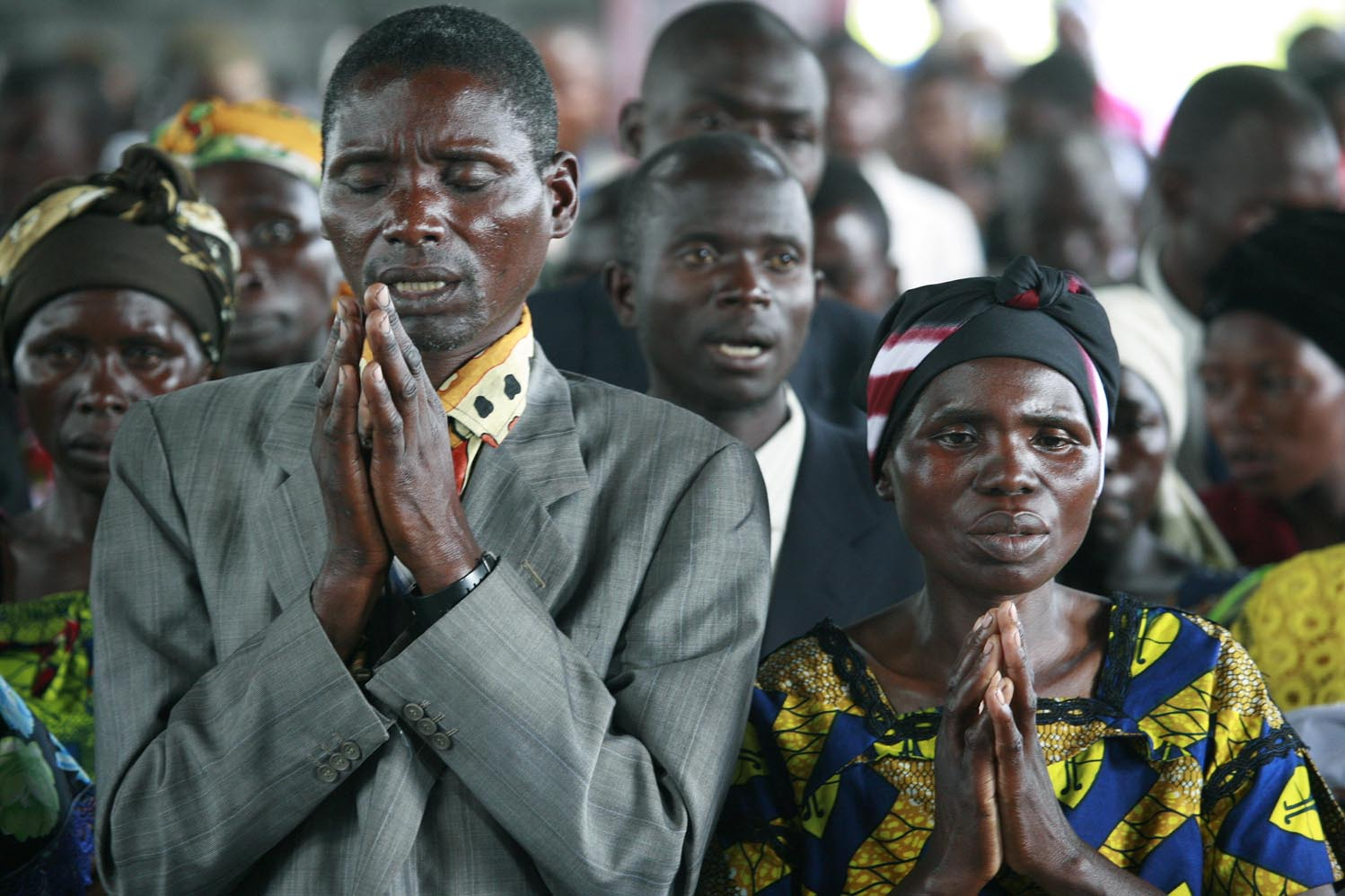 Christians praying in Goma, DR of Congo.